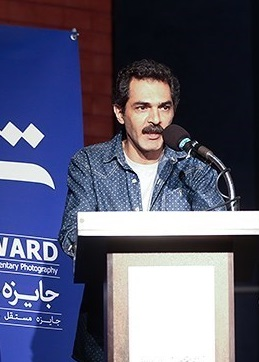 اختتامیه پنجمین دوره جایزه عکس شید